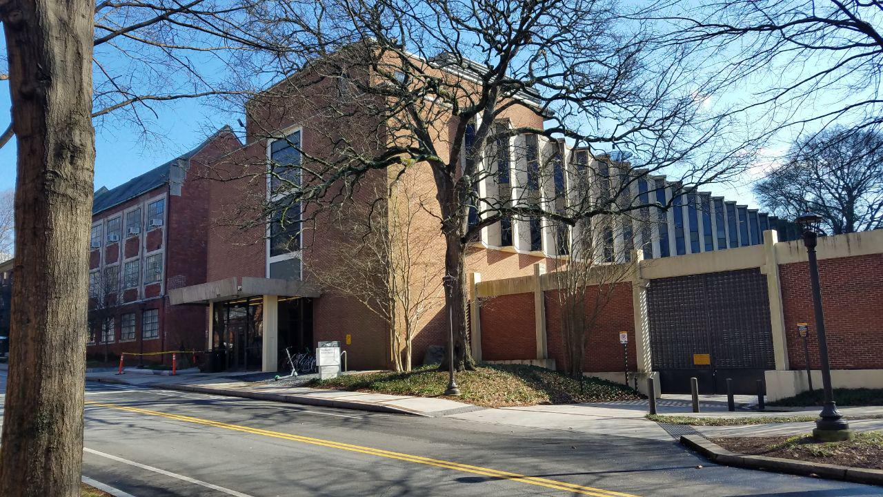 Montgomery Knight Building on the main campus of the Georgia Institute of Technology in Atlanta, Georgia.